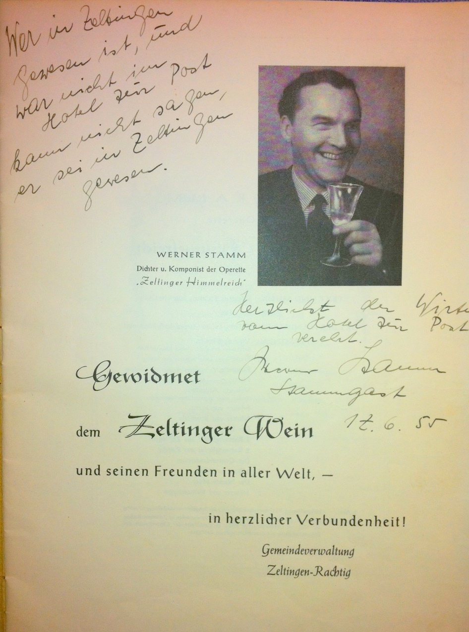 A note of the german composer Werner Stamm regarding the premier of the "Zeltinger Himmelreich Operette" in the guestbook of Hotel Nicolay zur Post 1955